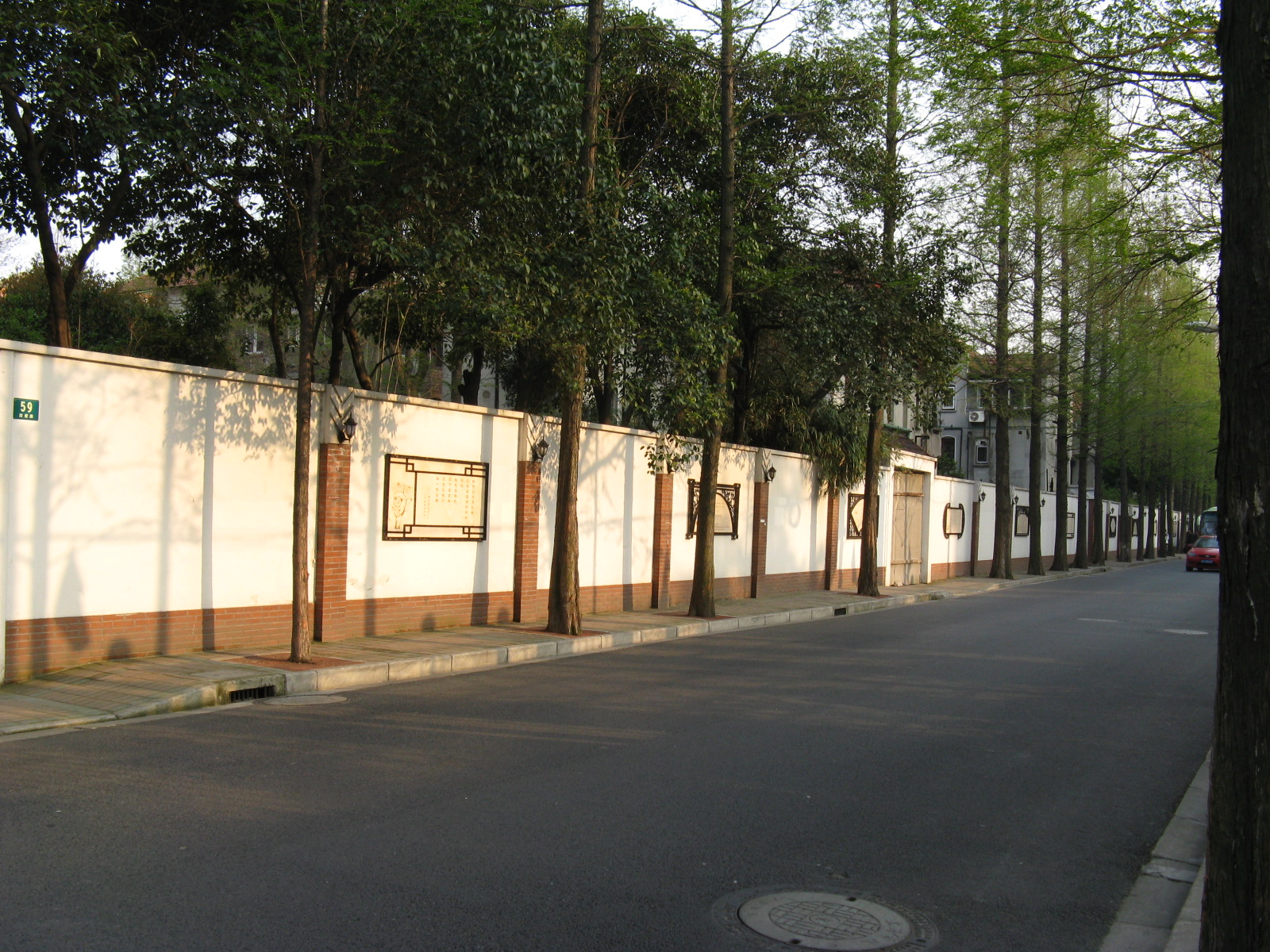 Love Wall along the Tian'ai Road，Shanghai，PRC